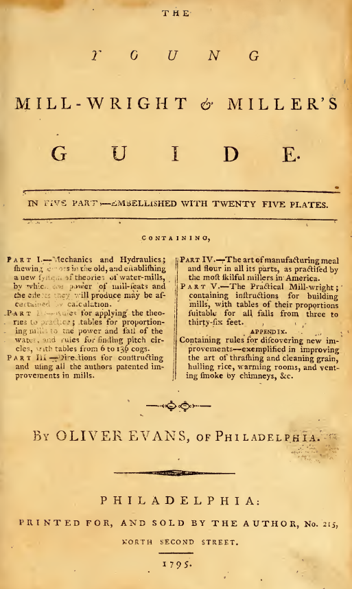 Front page of the The Young Mill-wright & Miller's Guide, 1795